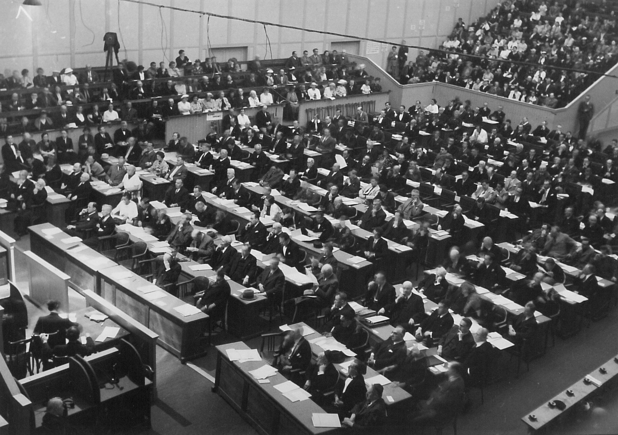 Delegates and guests at the Third World Jewish Congress Plenary Assembly in Geneva, 1953